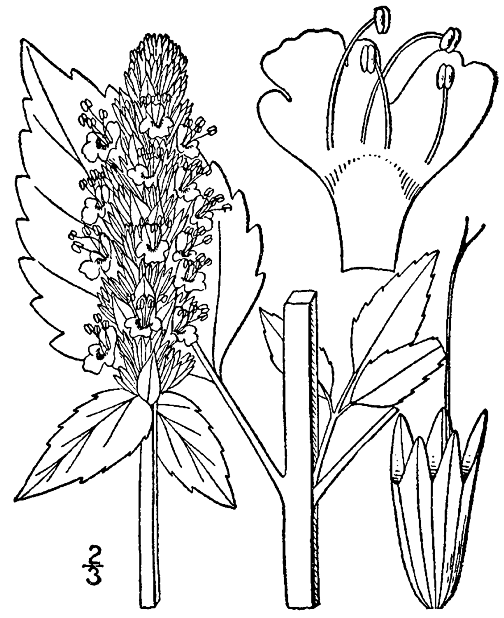 Giant Yellow Hyssop. Drawing.